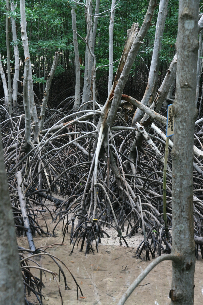 View of a single (complex) mangrove